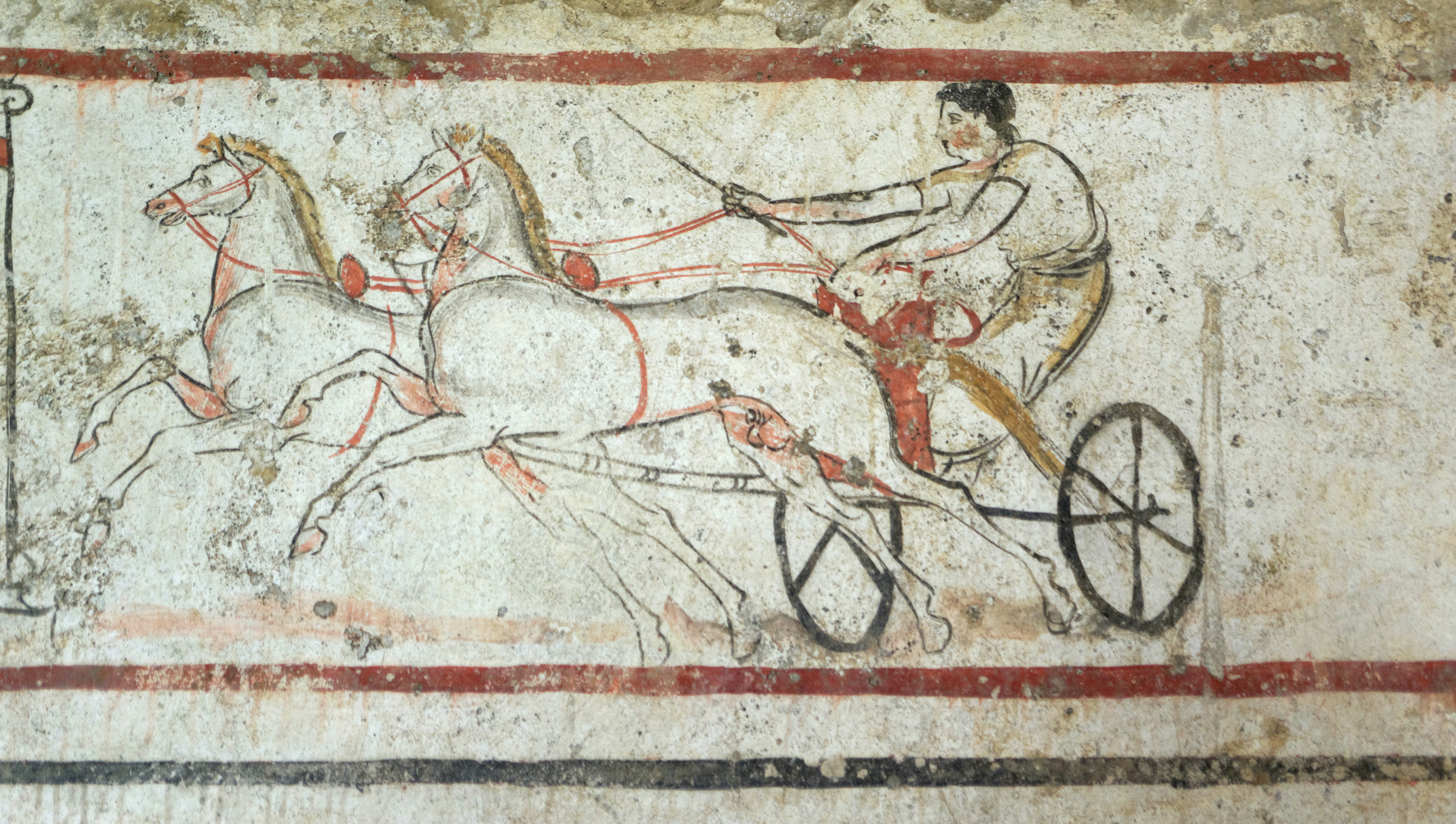 Italy, Paestum, Museum